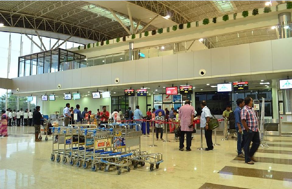 Checkin Counter at Madurai Airport